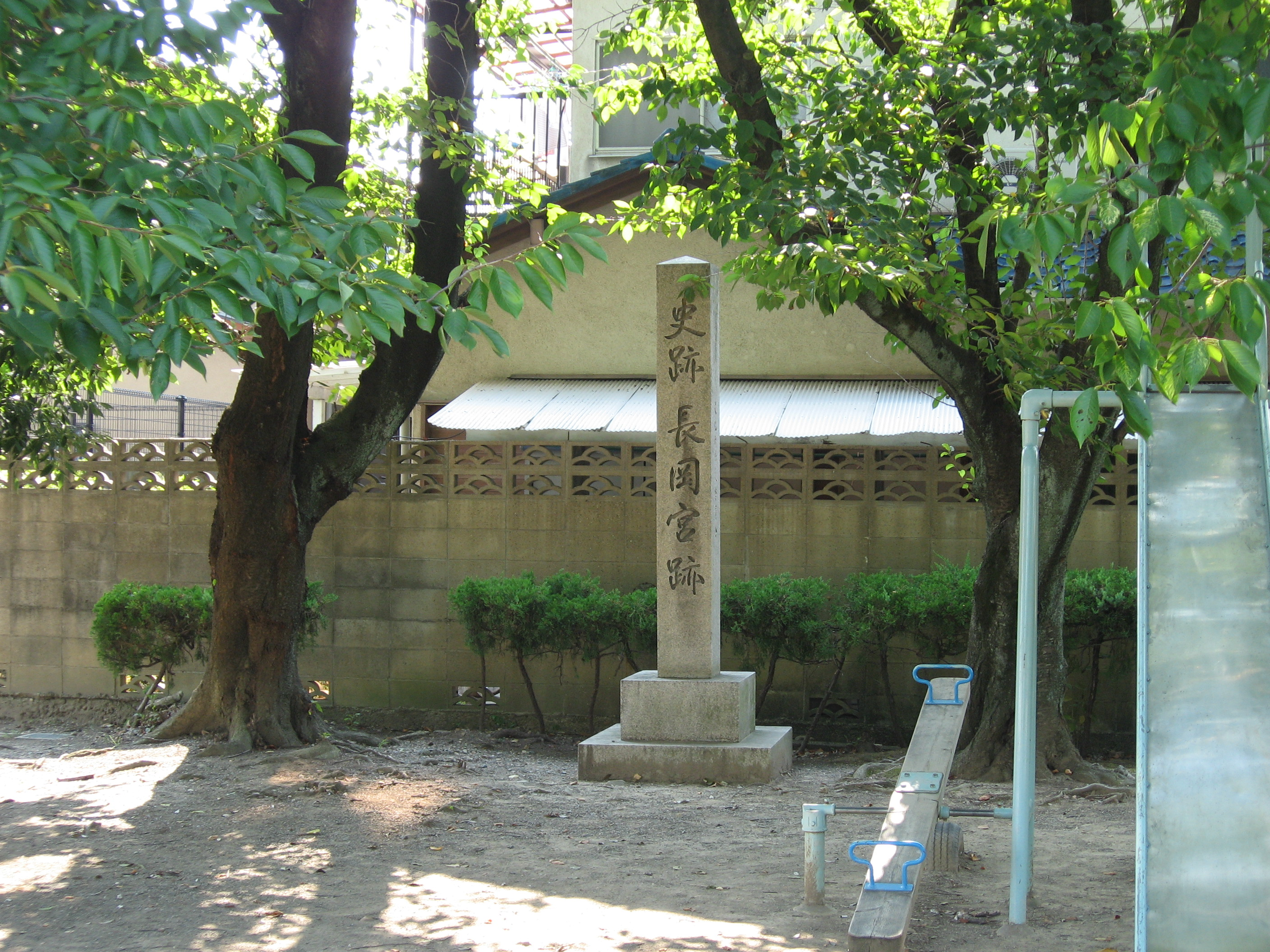 The Site of Nagaoka Palace, 長岡宮跡 向日市鶏冠井町